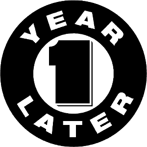 One Year Later